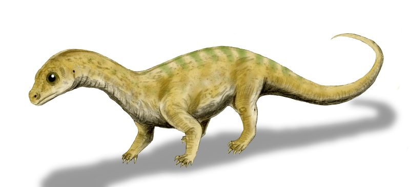 Massospondylus carinatus (juvenile), a prosauropod from the Early Jurassic of South Africa, pencil drawing, digital coloring